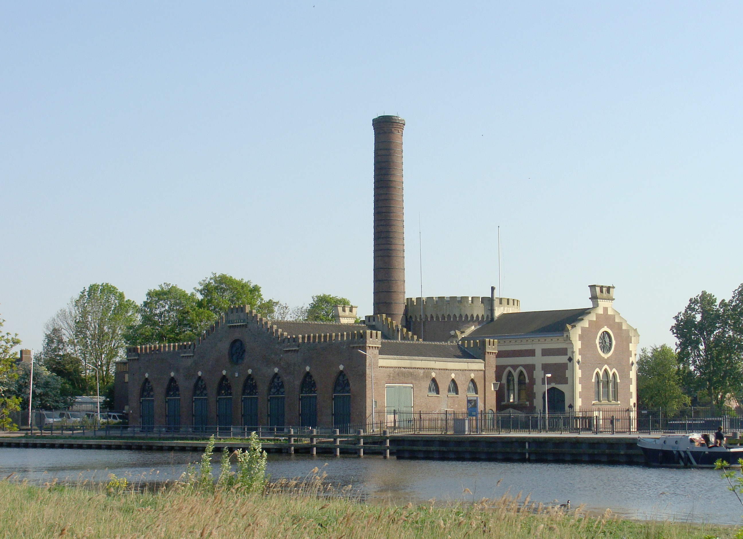 Pumping station De Lynden in the Haarlemmermeer polder, as seen from across the Ringvaart canal, April 2011